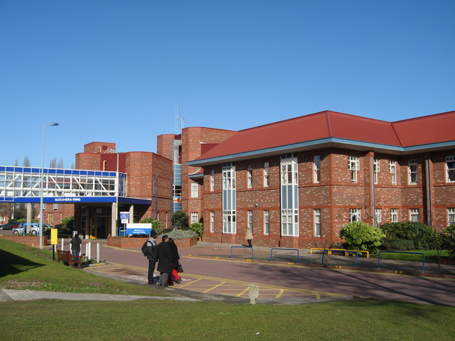 Alexander Wing, Broadgreen Hospital